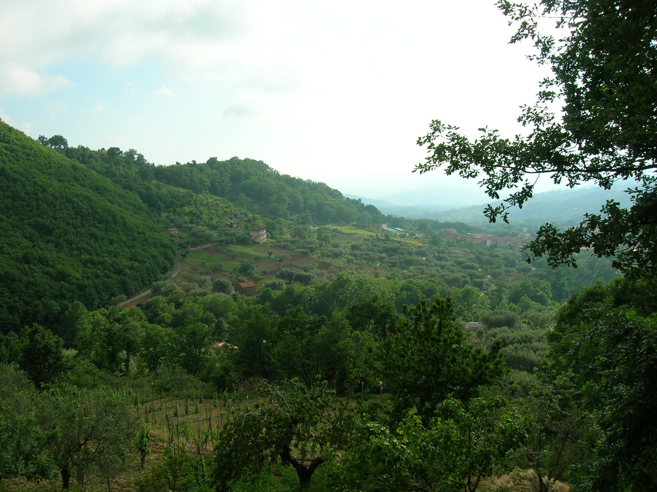 Author: Trond Ramsvik Looking over Cannalonga